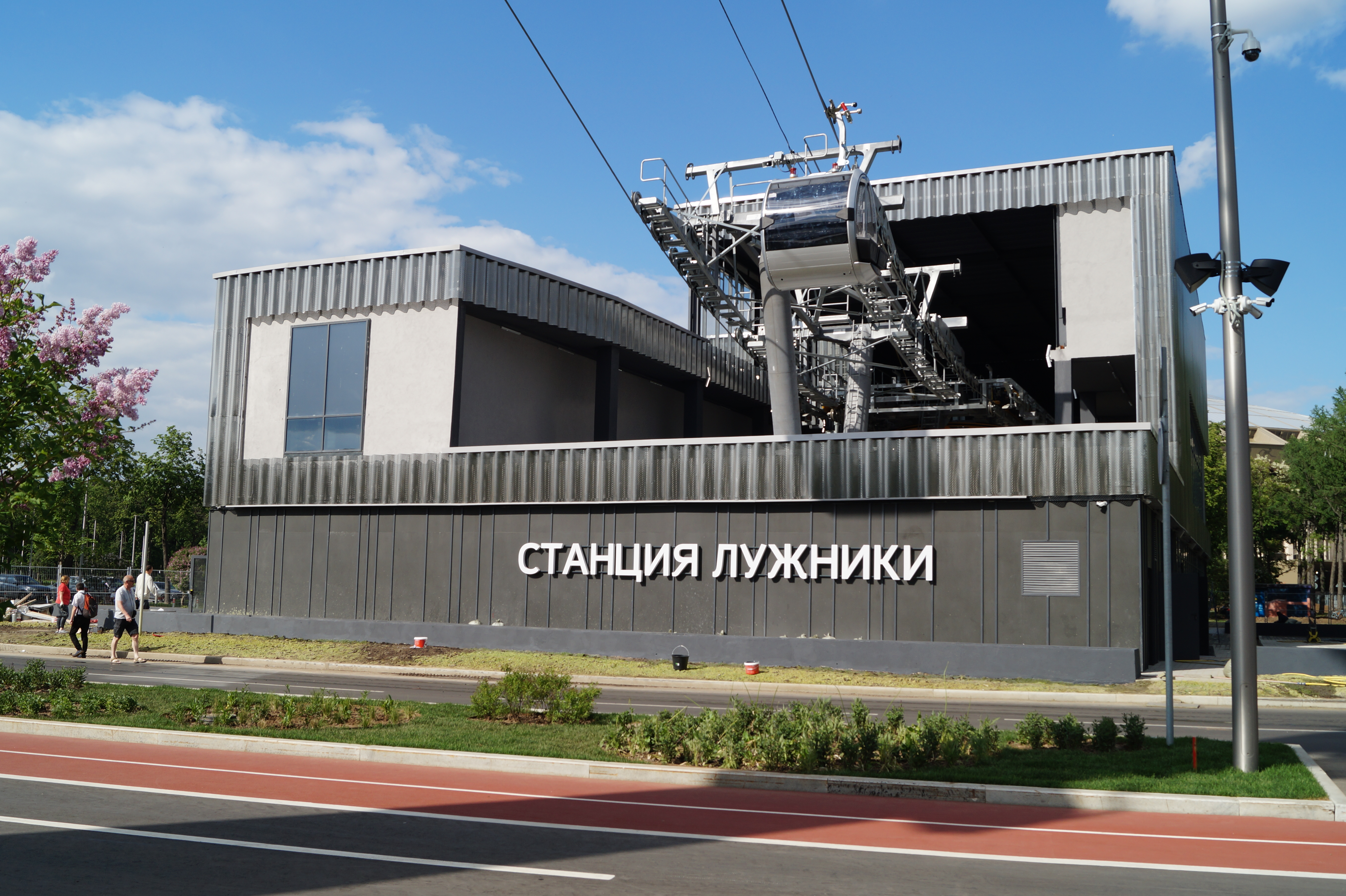 Luzhniki Cableway Station May 2018